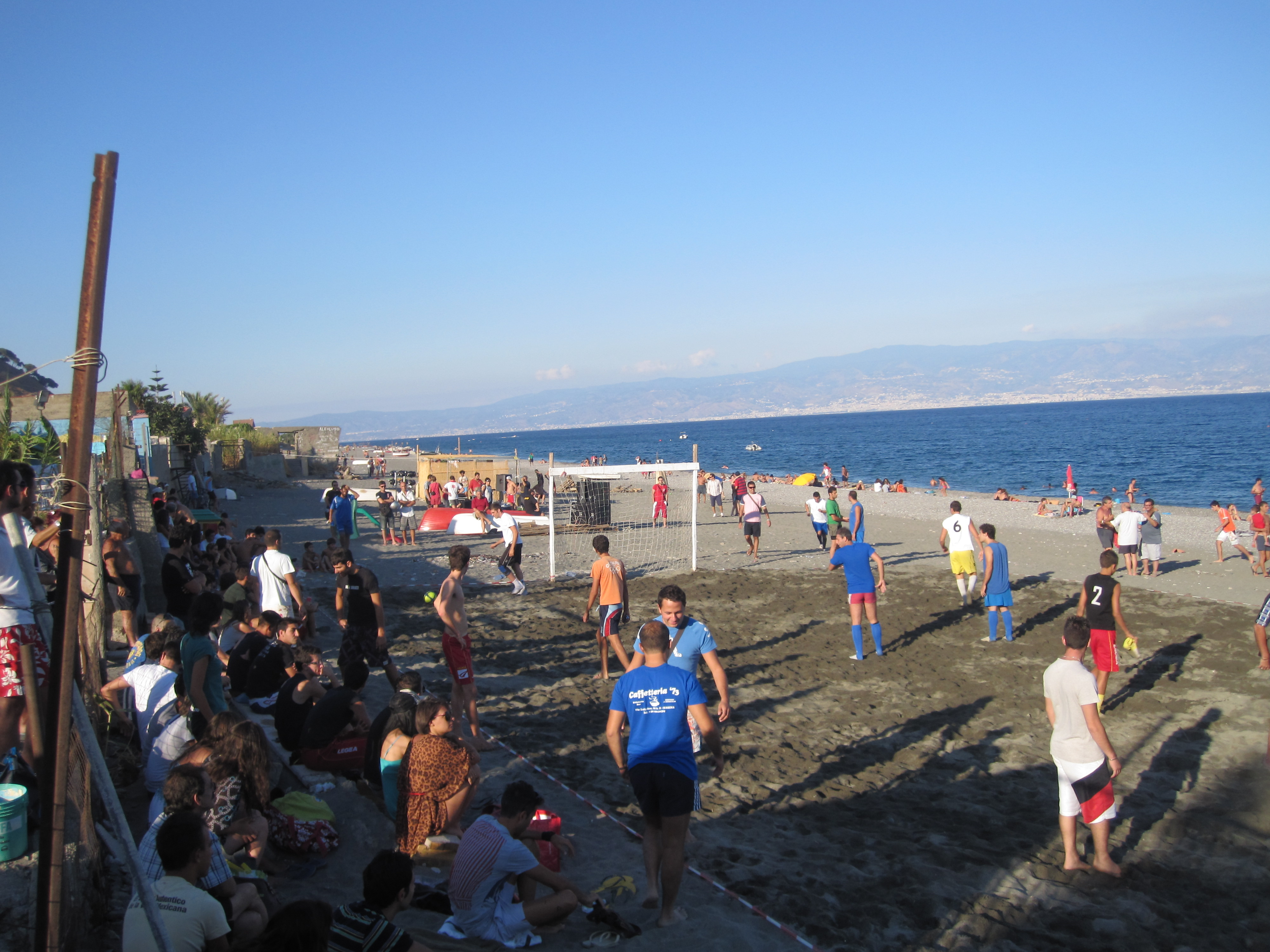 A photo of the beach of Giampilieri Marina.